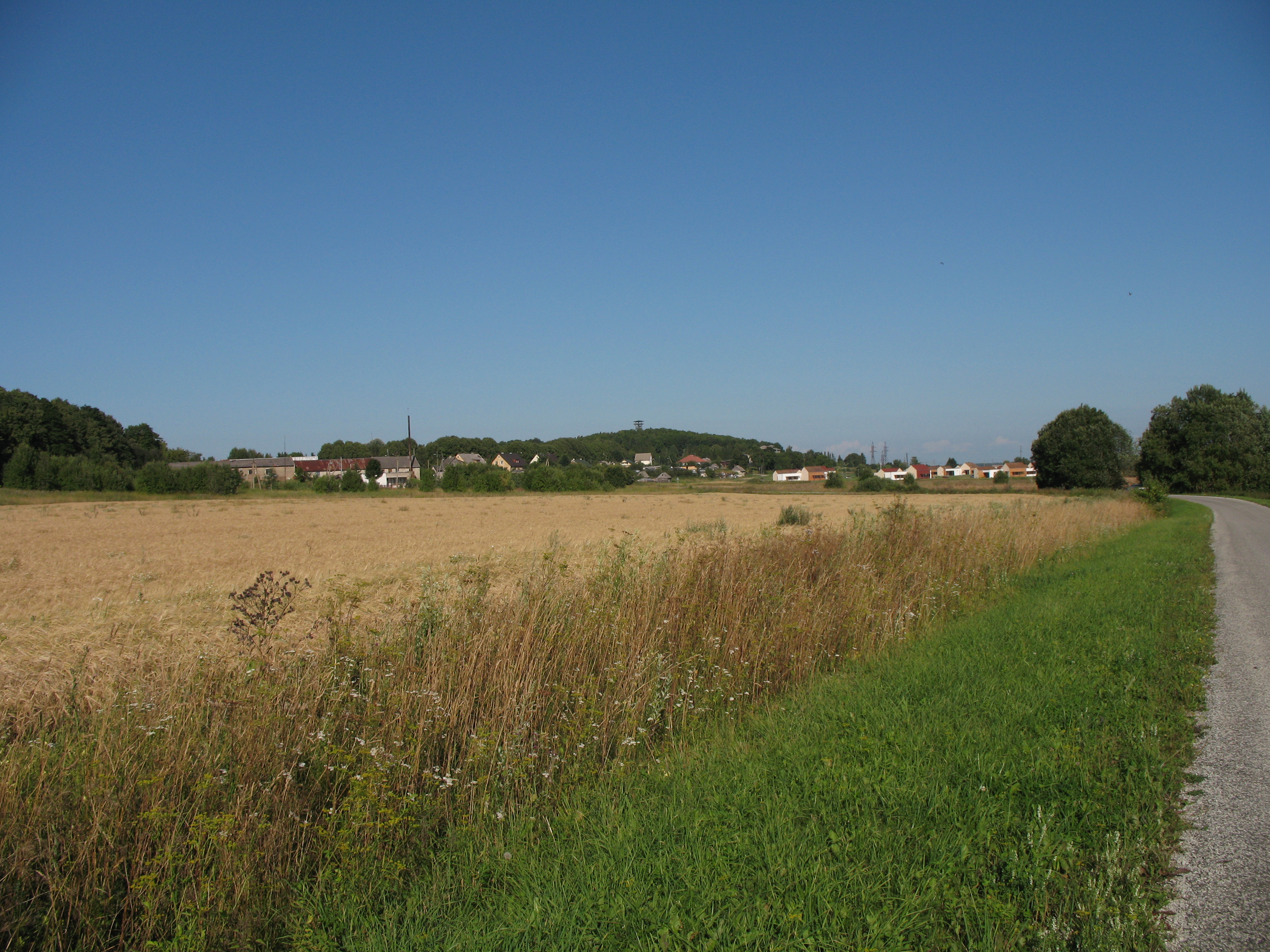 Sinimäe village in Vaivara Parish, Ida-Viru County, Estonia.